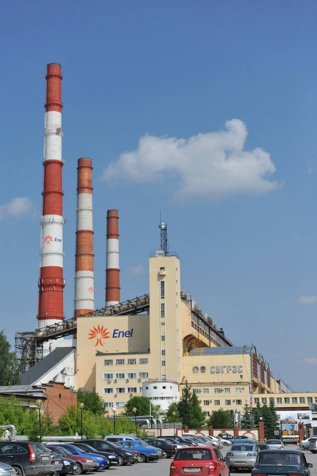 Sredneuralskaya GRES